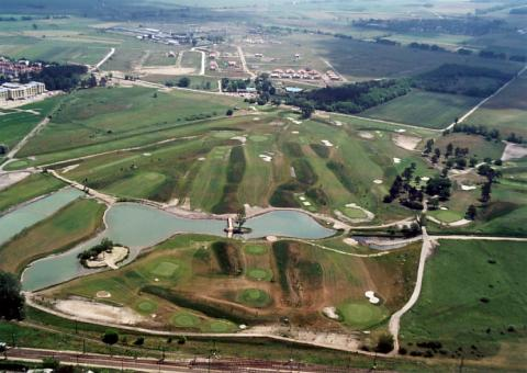 Göd, Hungary, aerialphotography